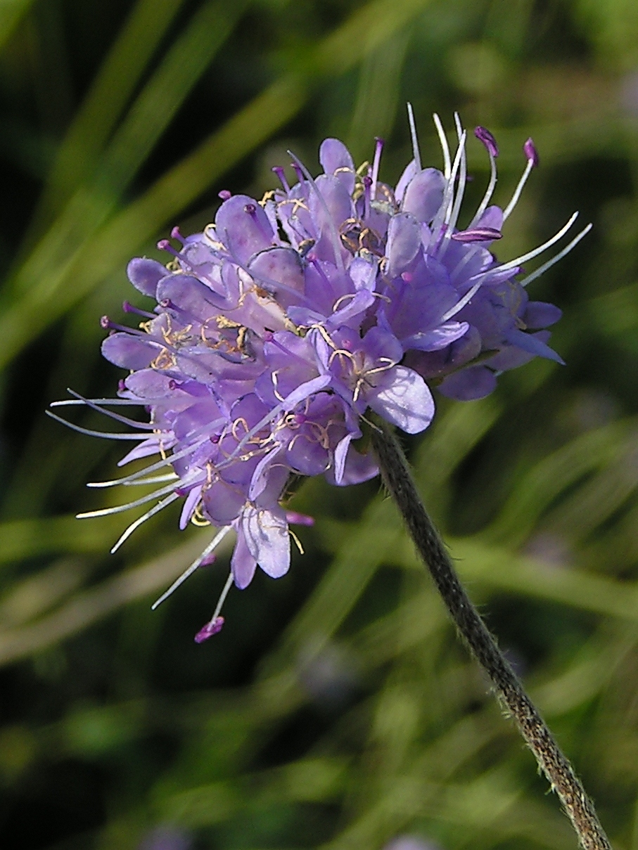 Succisa pratensis 2005, sep 4 by pethan Botanical Gardens Utrecht University